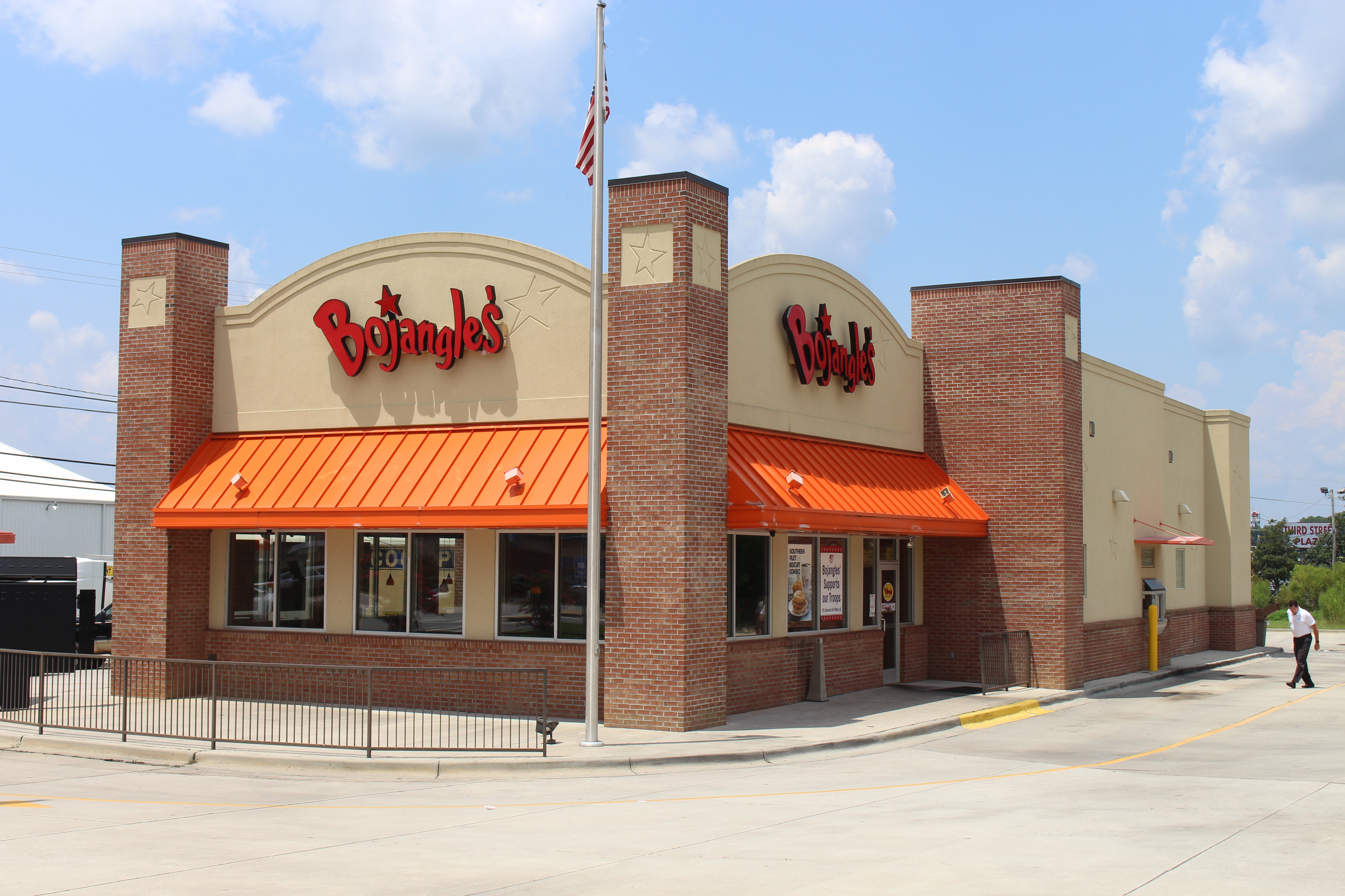 Tifton, Tift County, Georgia